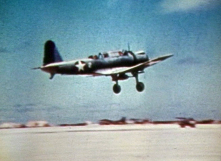 A U.S. Marine Corps Vought SB2U-3 Vindicator dive bomber of Marine scout bombing squadron VMSB-241 taking off from Eastern Island, Midway Atoll, during the Battle of Midway, 4-6 June 1942. This aircraft was flown on 4 June by 2nd Lt. George T. Lumpkin (pilot) and Pfc. George A. Toms (gunner) in an attack on the Japanese battleship Haruna.